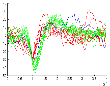 Spike cutouts colored according to their shape, which presumably identifies that the spikes were generated by two different neurons, a process usually termed spike sorting. The x-axis indicates time in seconds, the y-axis is in μV.